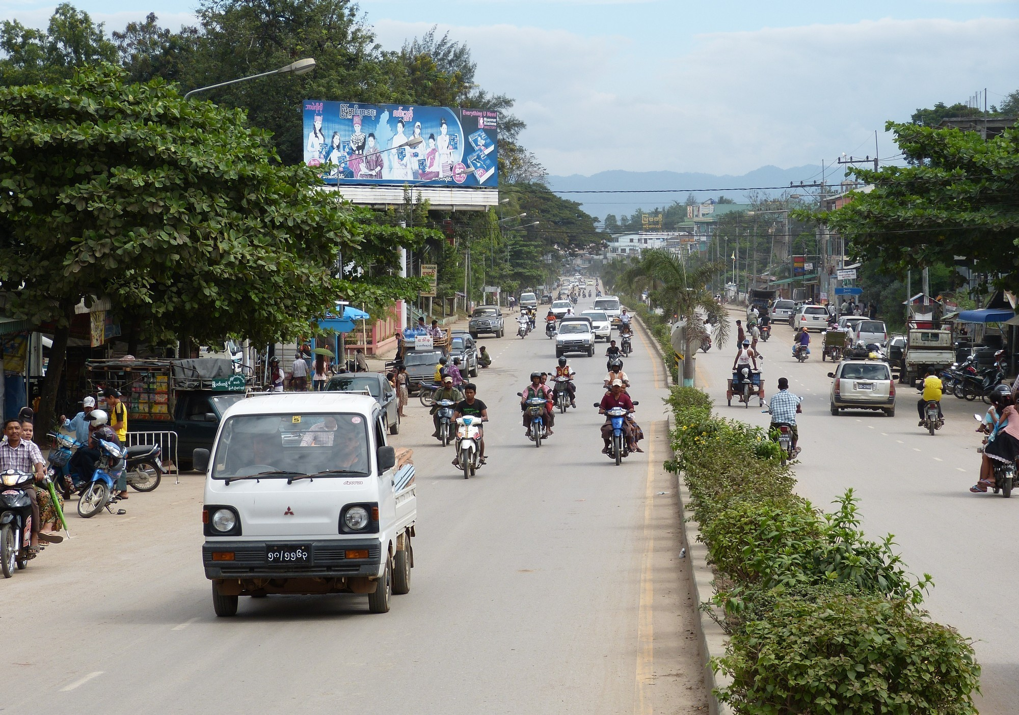 Myawaddy, Myanmar (Burma)